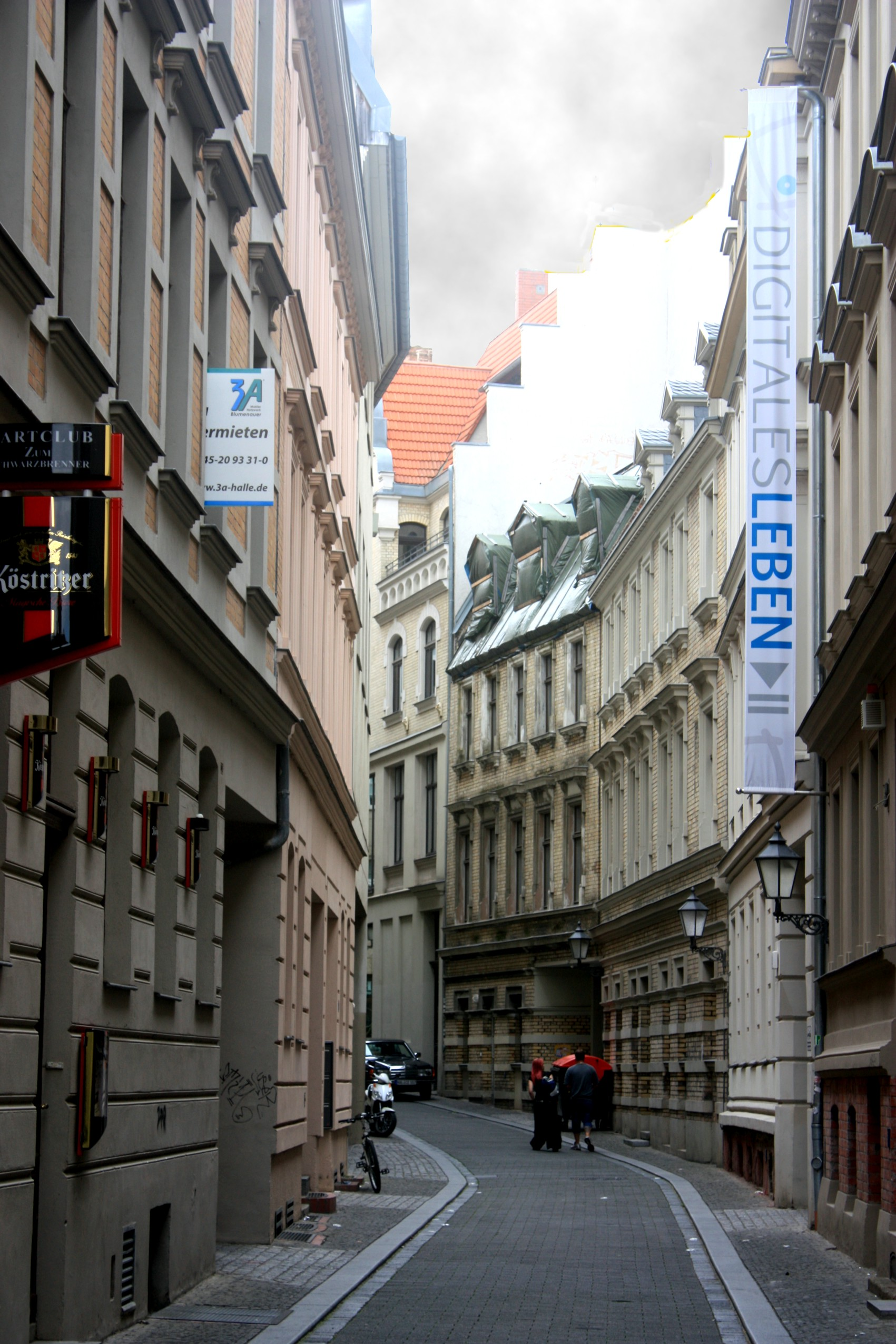 Halle (Saale), the street "Bölbergasse"